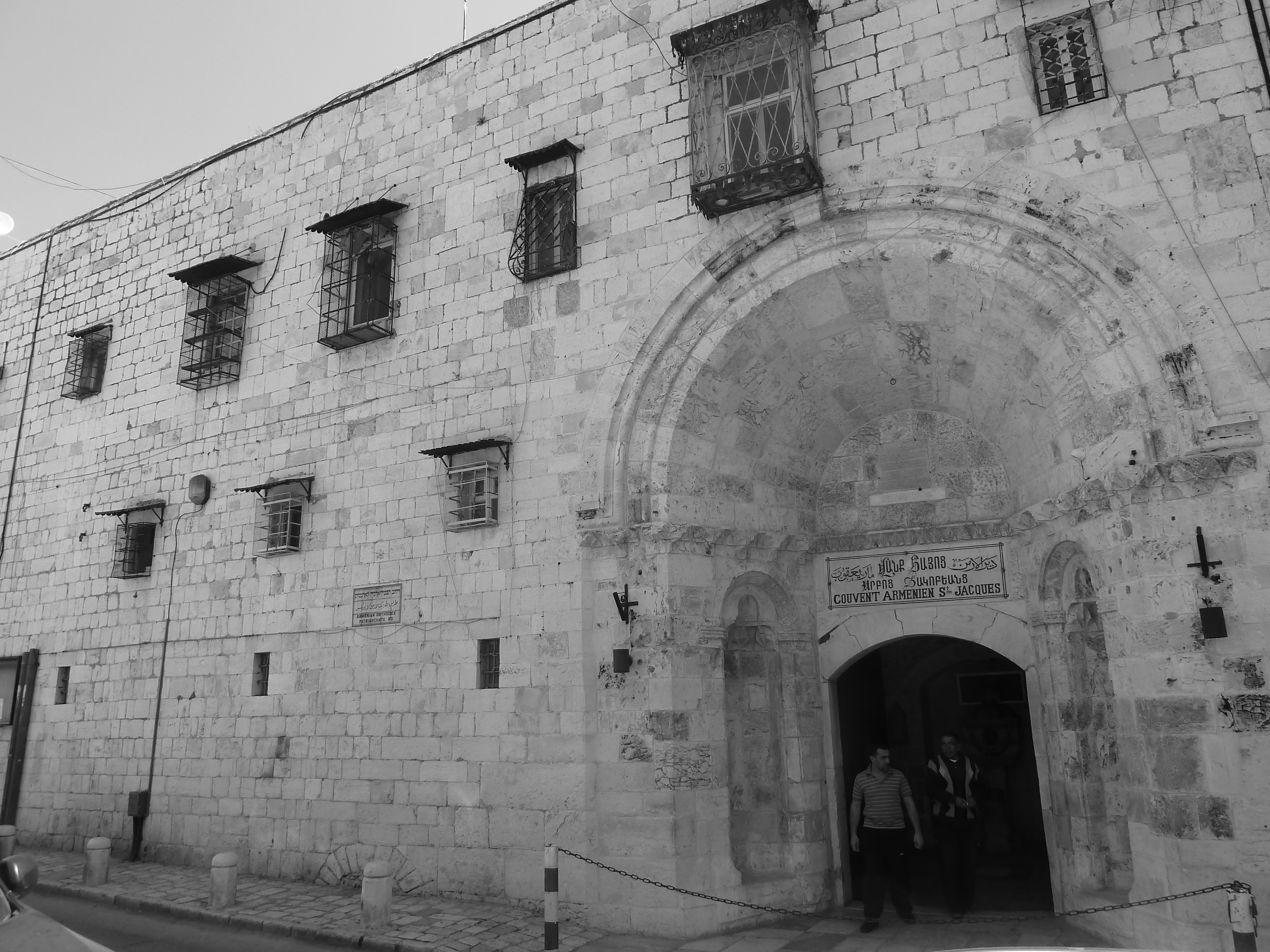 Armenian Quarter, Jerusalem